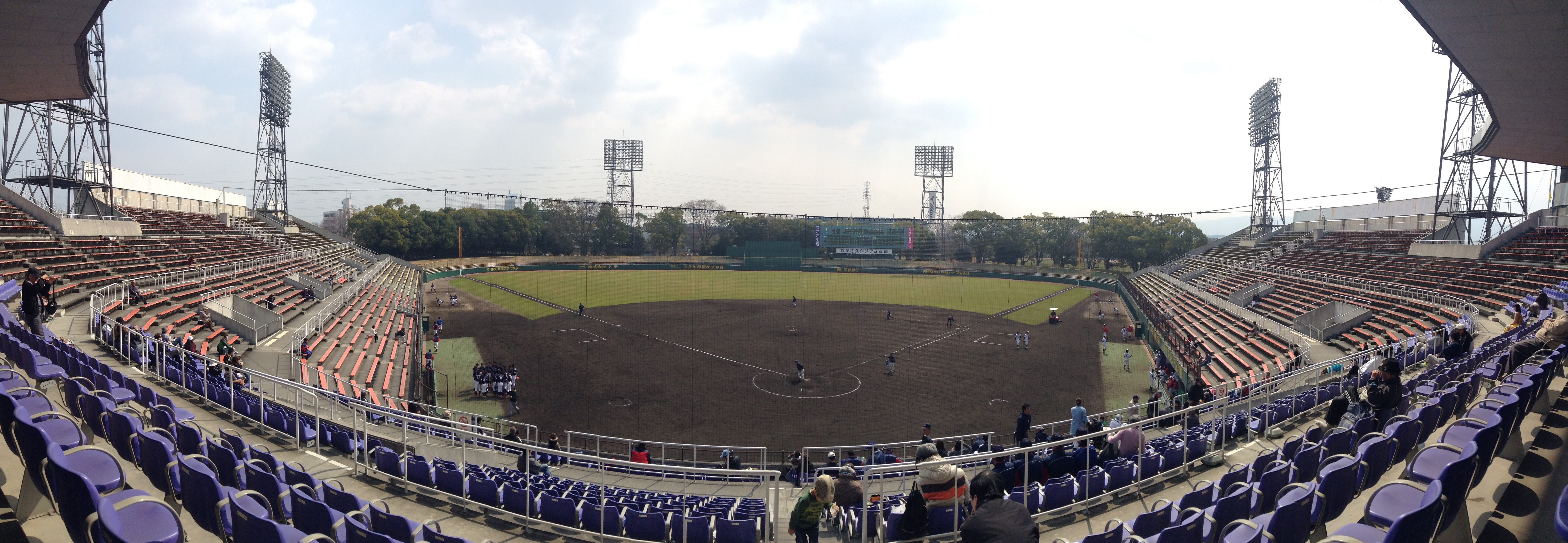 The panoramic photograph of Kyoto Nishikyogoku Baseball Stadium